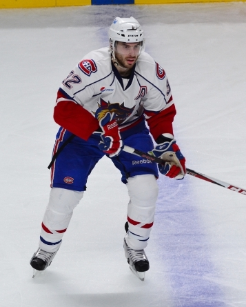 Frédéric Saint-Denis, in a game between the Hamilton Bulldogs and the Syracuse Crunch at the Bell Centre of Montreal.